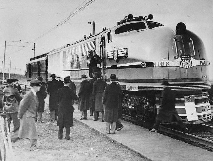 Photo of the two steam turbine locomotives General Electric built for Union Pacific. After testing them after delivery in 1939, the railroad was unhappy with them both and returned them to GE in the same year received. It is believed GE dismantled both locomotives after UP returned them. The photo was taken at the GE plant at Erie, PA, as the locomotives prepared for their test run.